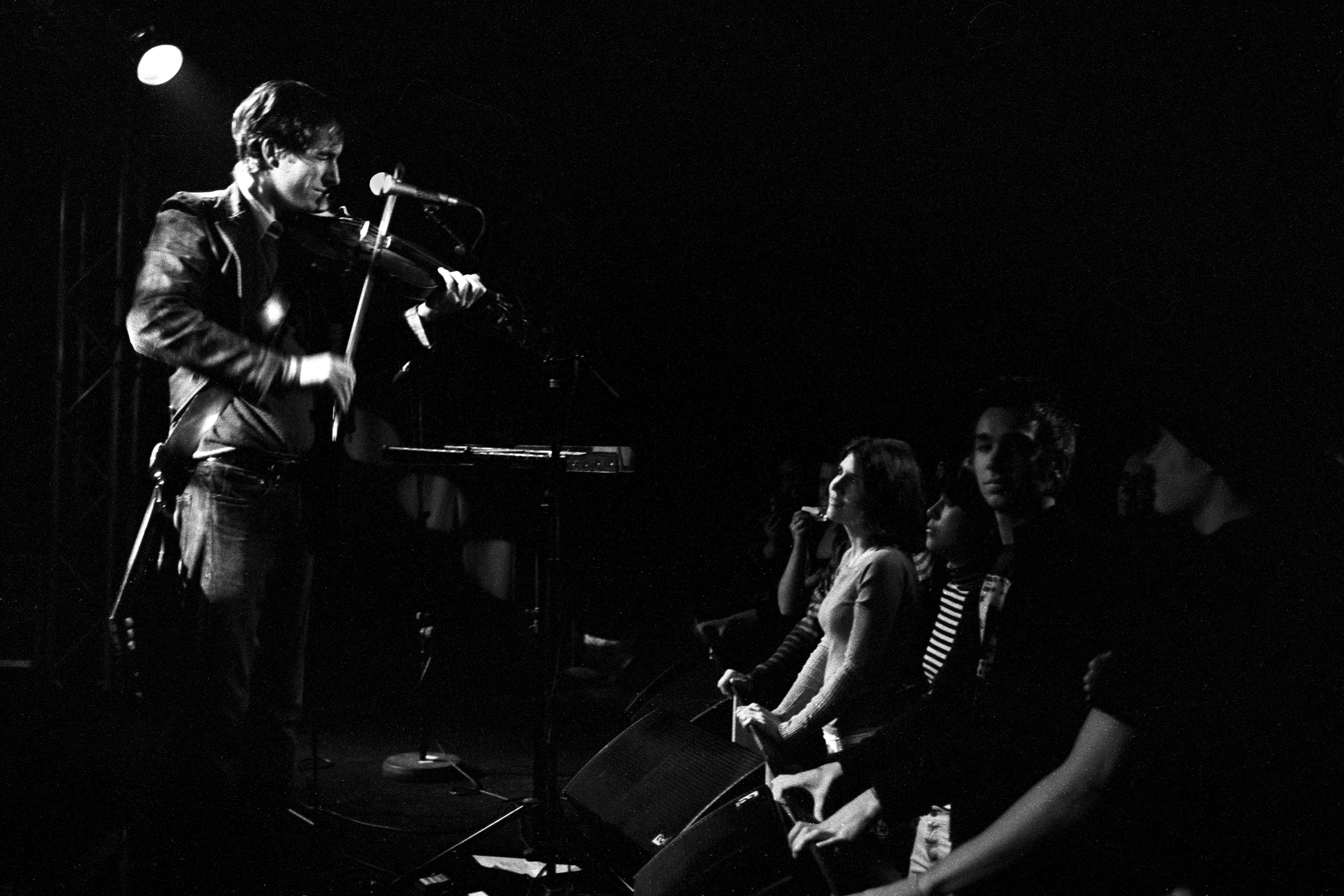 Andrew Bird live at Debaser, Stockholm, Sweden Equipment: Konica Hexar, Neopan 1600